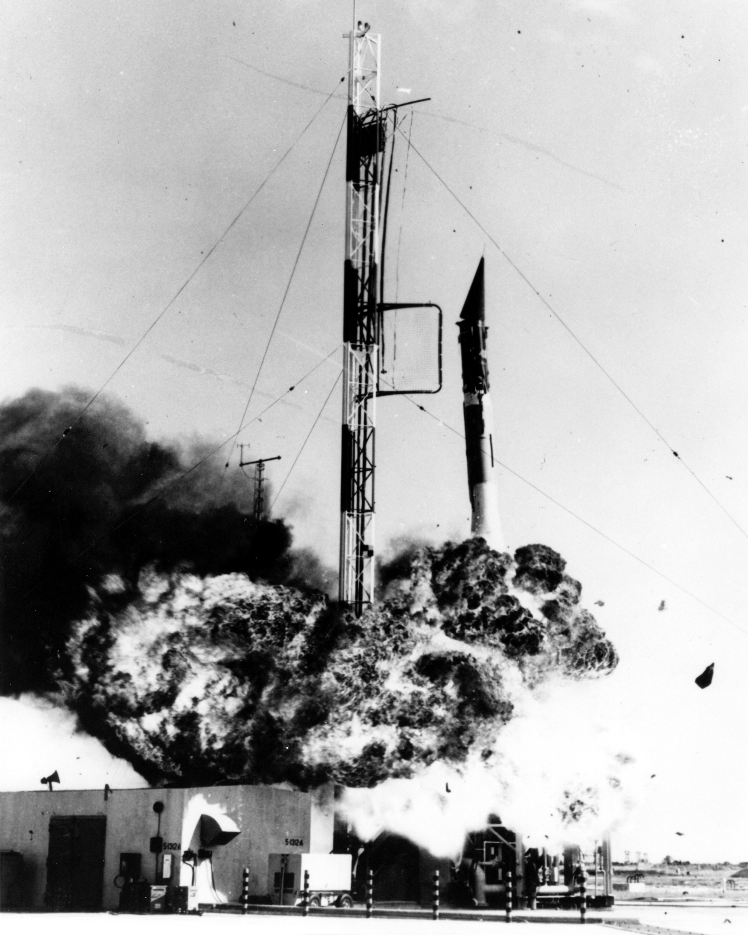 Test of Vanguard launch vehicle for U.S. International Geophysical Year (IGY) program to place satellite in Earth orbit to determine atmospheric density and conduct geodetic measurements. Malfunction in first stage caused vehicle to lose thrust after two seconds and vehicle was destroyed.